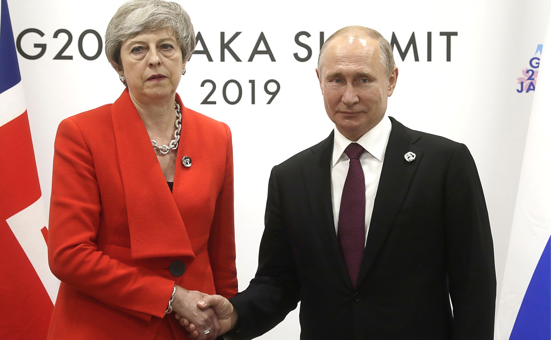 U.K. Prime Minister Theresa May and Russian President Vladimir Putin at the 2019 G-20 Osaka Summit